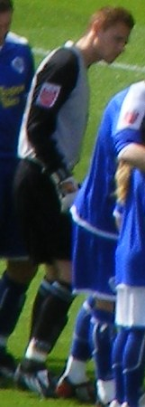 David Martin. Image cropped from original at Flickr.